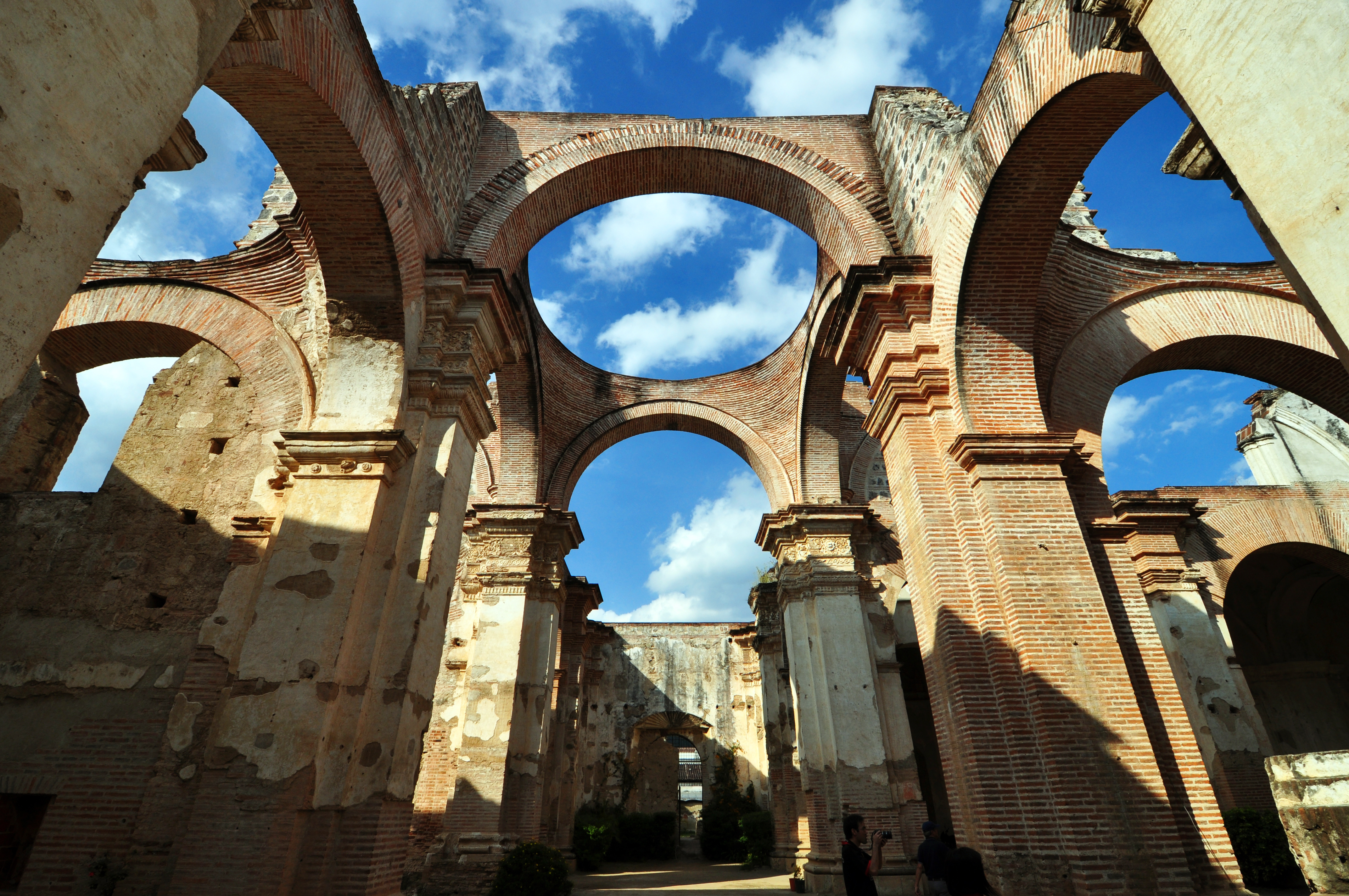 church Antigua Guatemala missing roof 2009. Note: Actually part of the old Cathedral, which was only partially restored after its destruction in the 18th century, so it is partly in ruins (on this photo) and partly a restored and functioning church.